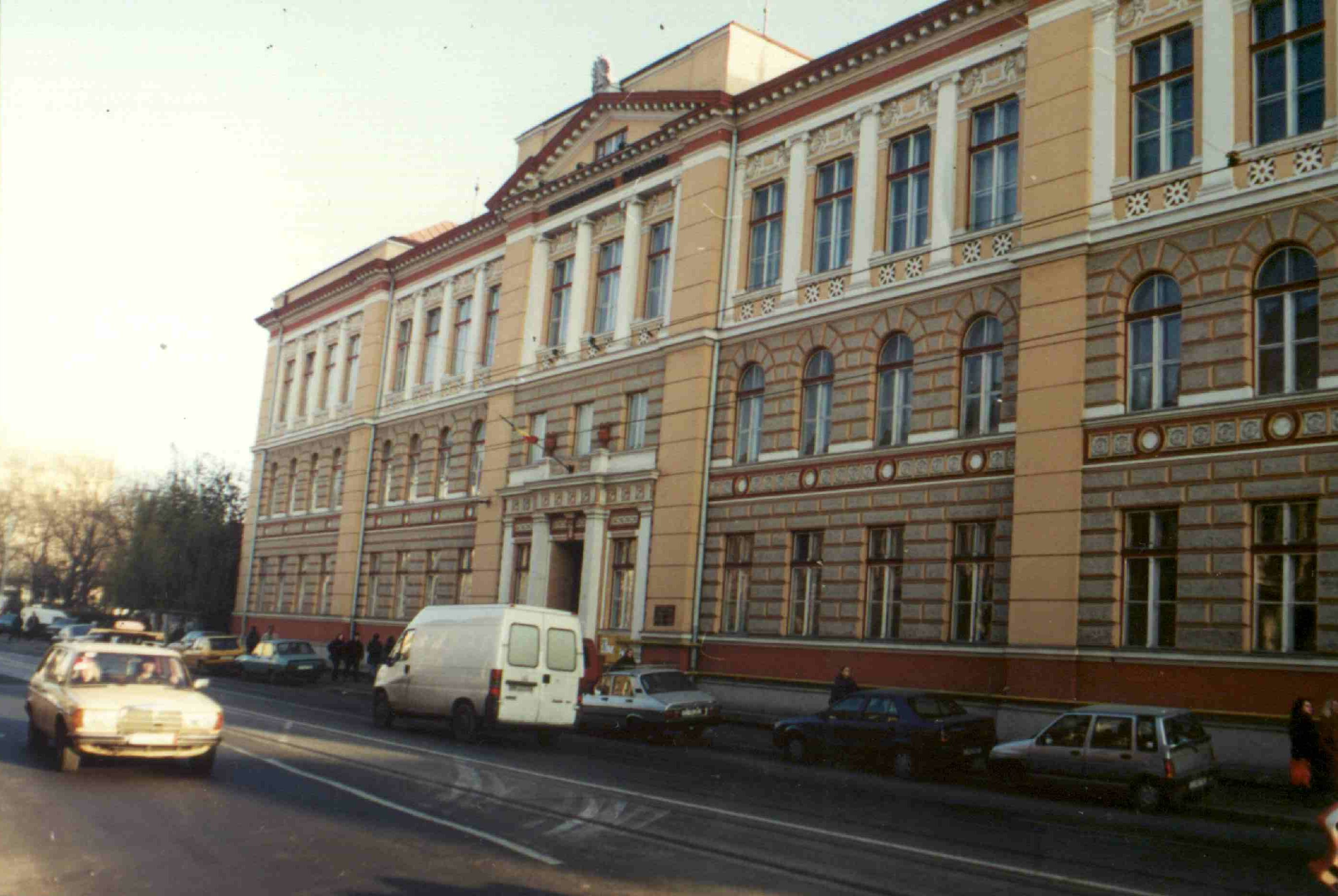 Technic University